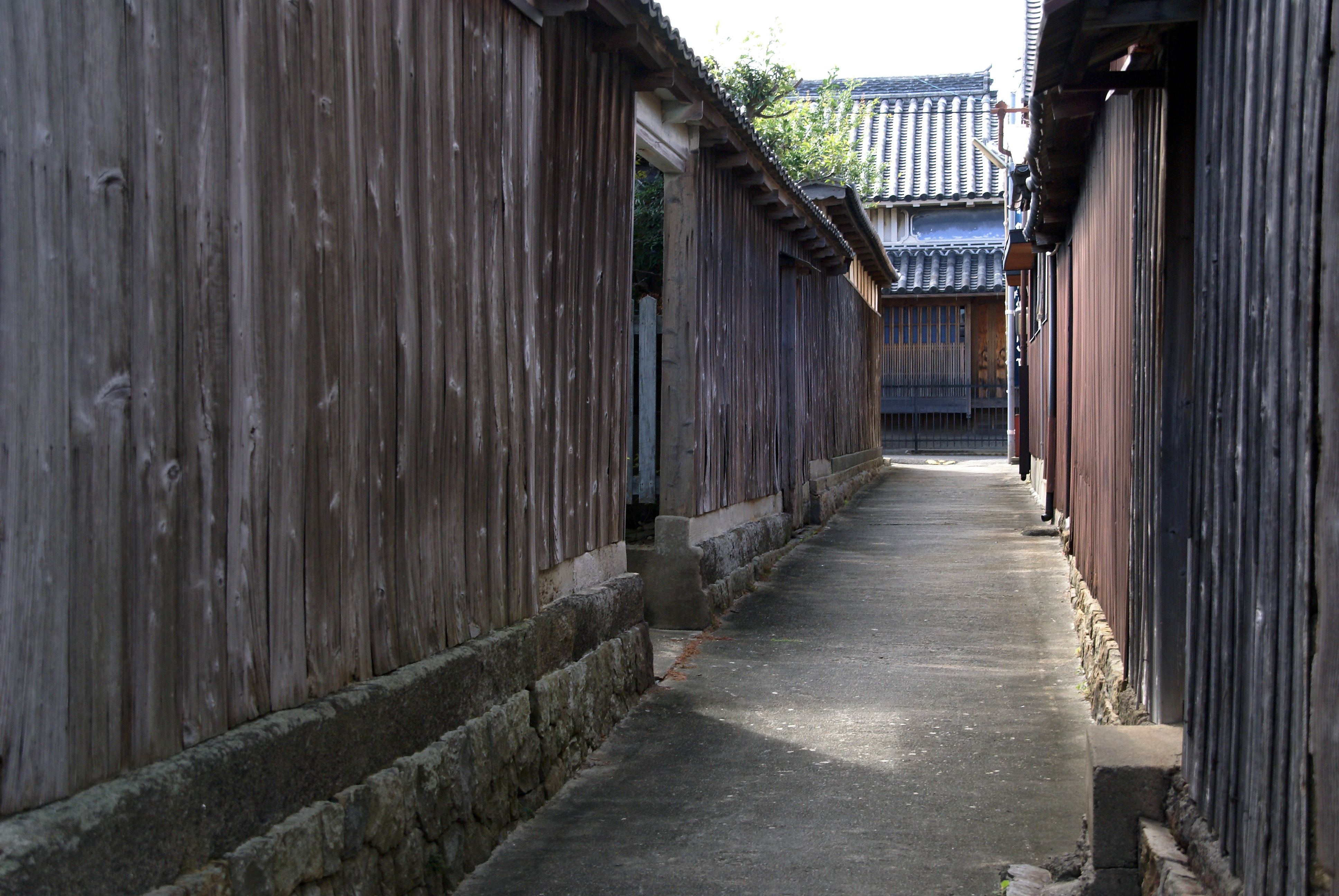 Street of Hiketa, Higashikagawa, Kagawa prefecture, Japan